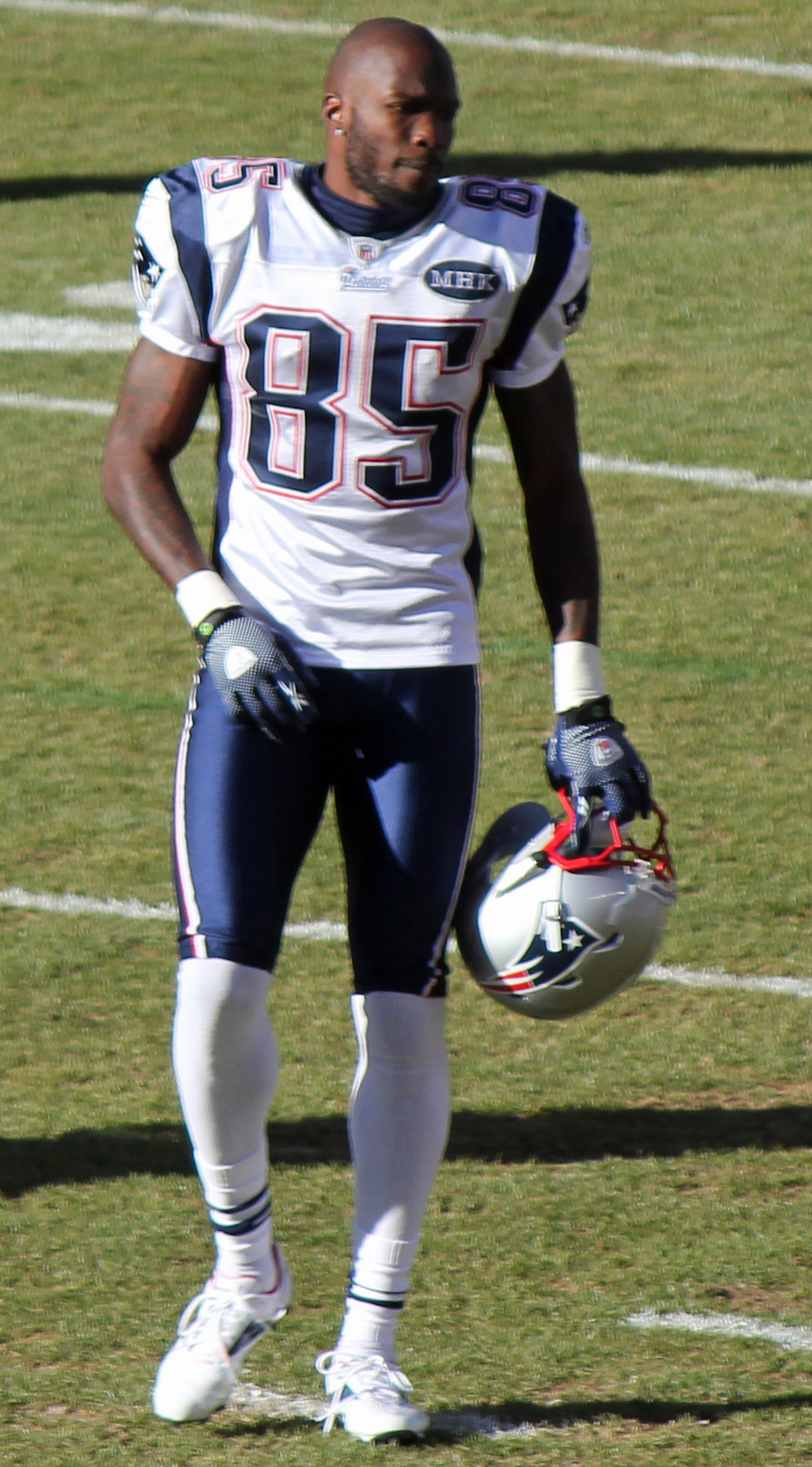 Chad Ochocinco, a National Football League player.